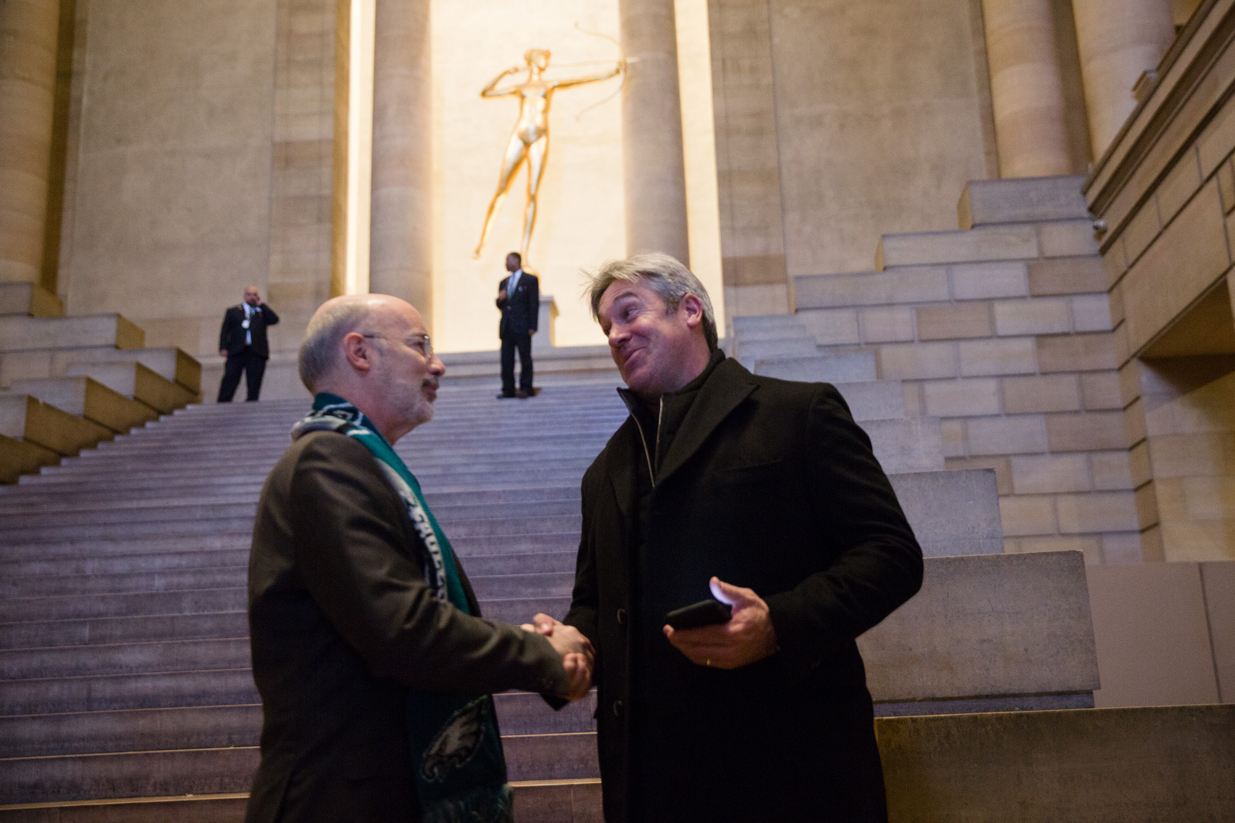 Pennsylvania Governor Tom Wolf with Eagles Head Coach Doug Pederson at the Eagles Super Bowl Parade in Philadelphia.